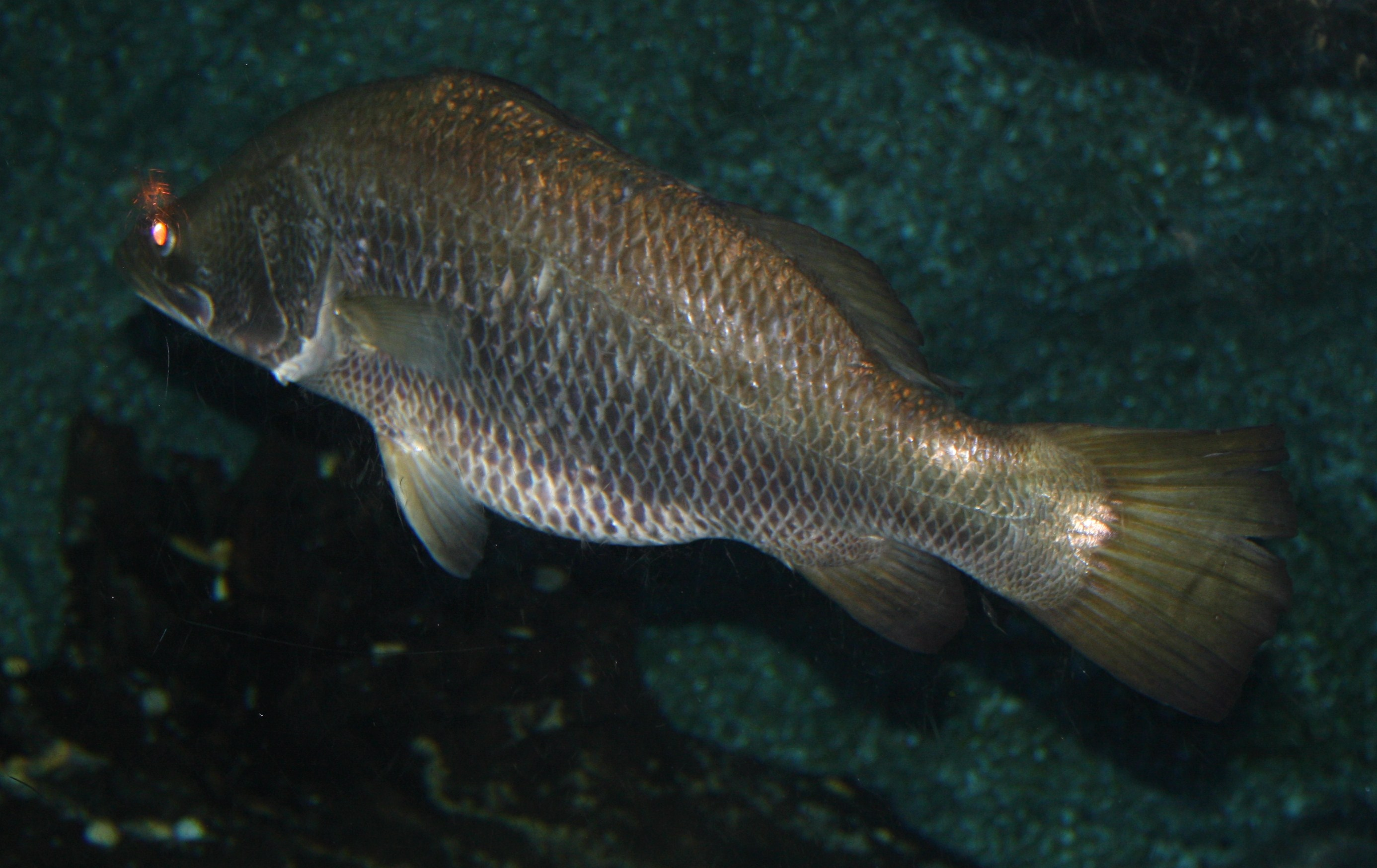 Lates calcarifer or "Barramundi", in the Siam Centre, Bangkok